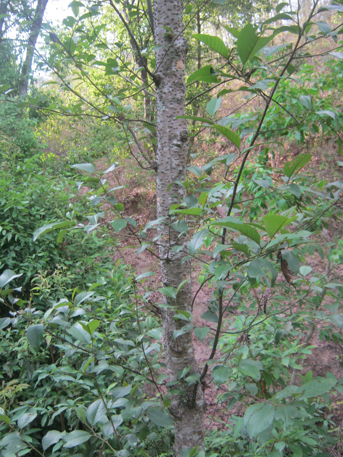 Stem of Alnus Nepalensis.